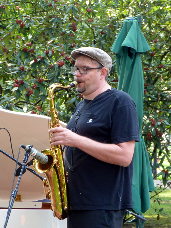 Jazz musician Johannes Enders playing the saxophone at the Erlanger Poetenfest 2013.